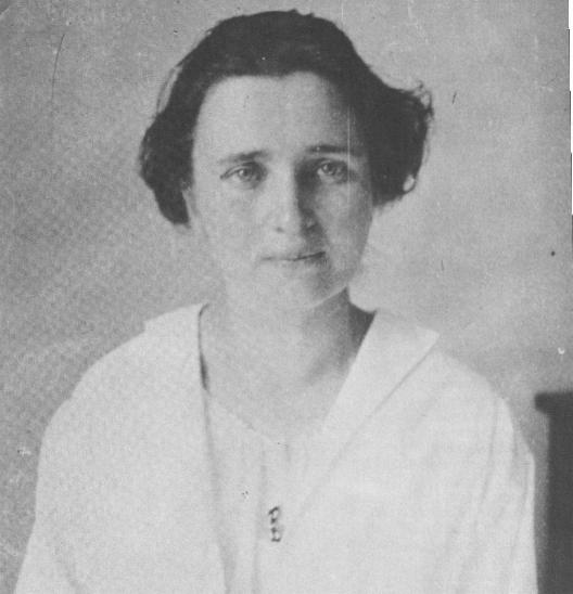 Tatiana Schucht (Tania), sister in law of Antonio Gramsci